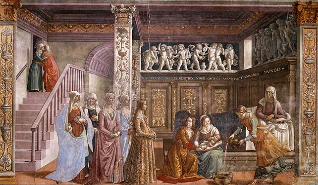 "Birth of Mary" Cappella TornabuoniNative nameCappella Tornabuoni, Basilica of Santa Maria NovellaLocationPiazza Santa Maria Novella, Firenze, ItalyCoordinates43° 46′ 30.46″ N, 11° 14′ 57.93″ EEstablished1485 and 1490Websitewebsite